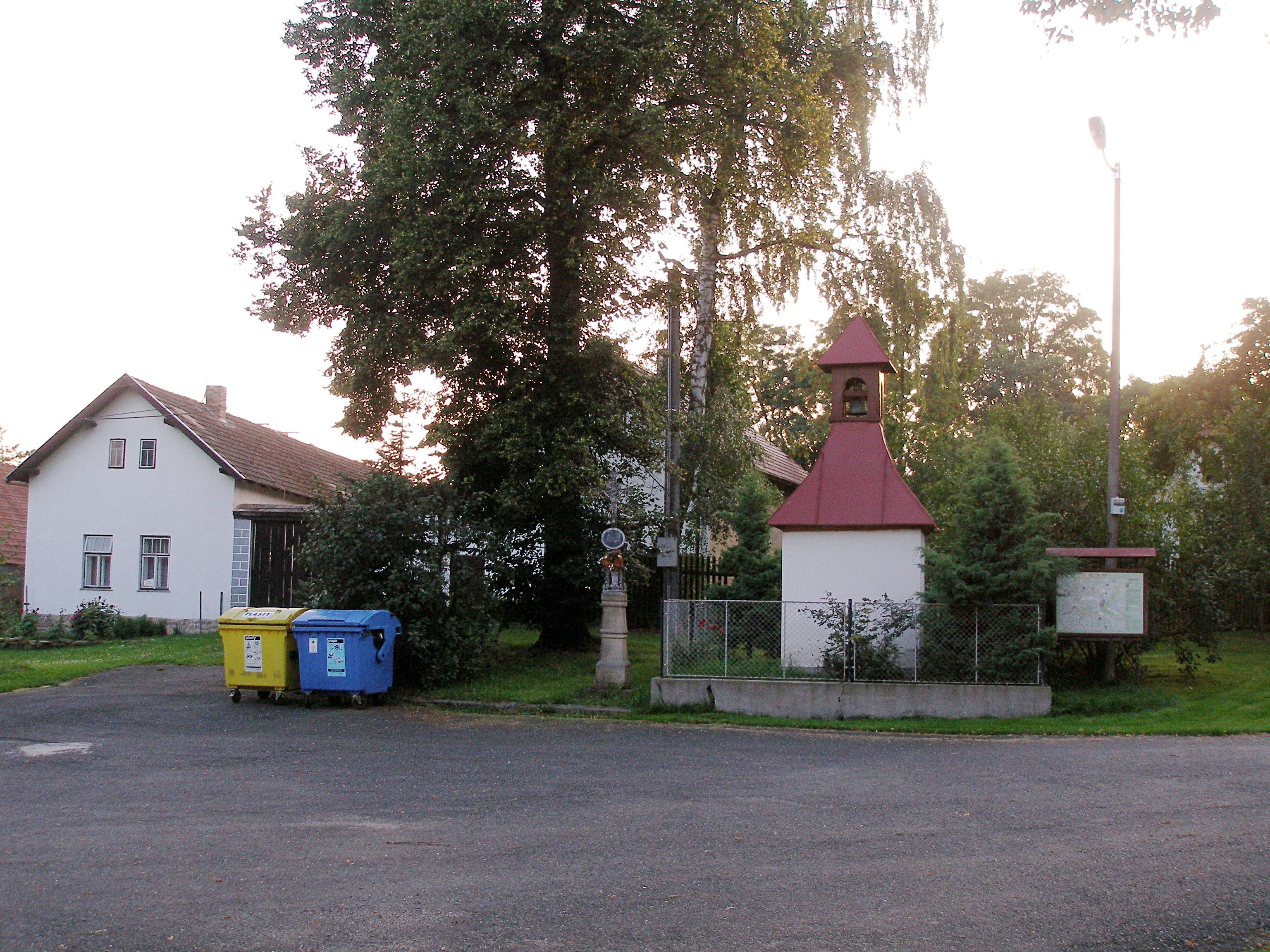 The square in Koberovice with the chapel